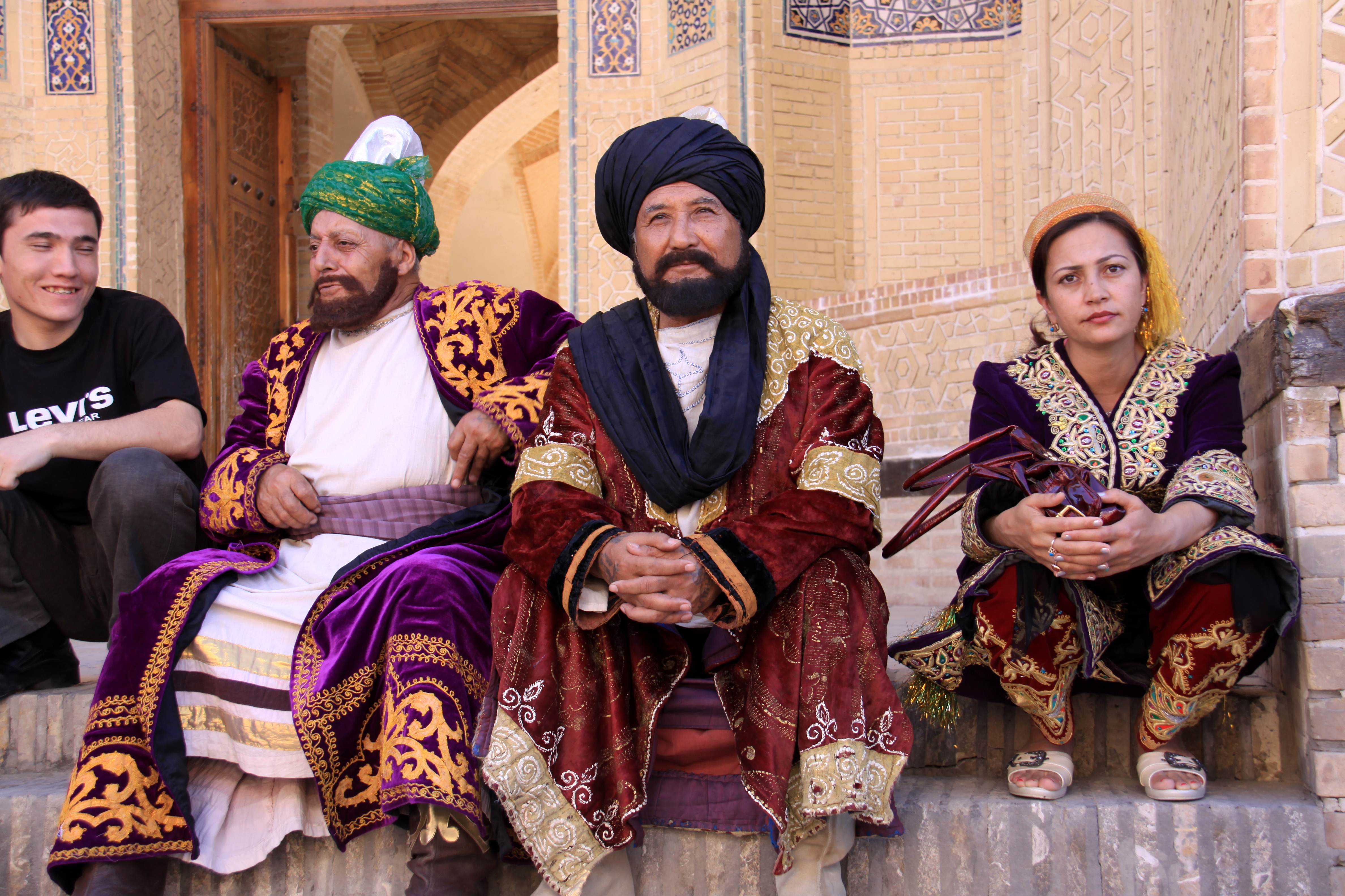 Uzbekistan, Bukhara, spices and silk festival